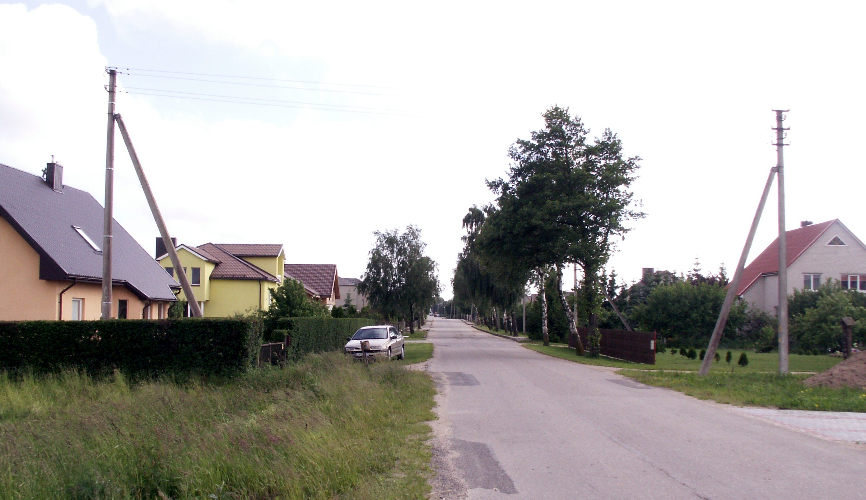 Settlement Kiauleikiai, Kretinga district, Lithuania